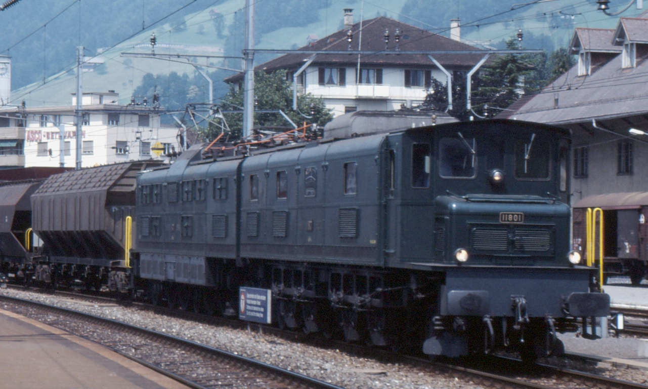 SBB Ae 8/14 11801 in switzerland with freight Train